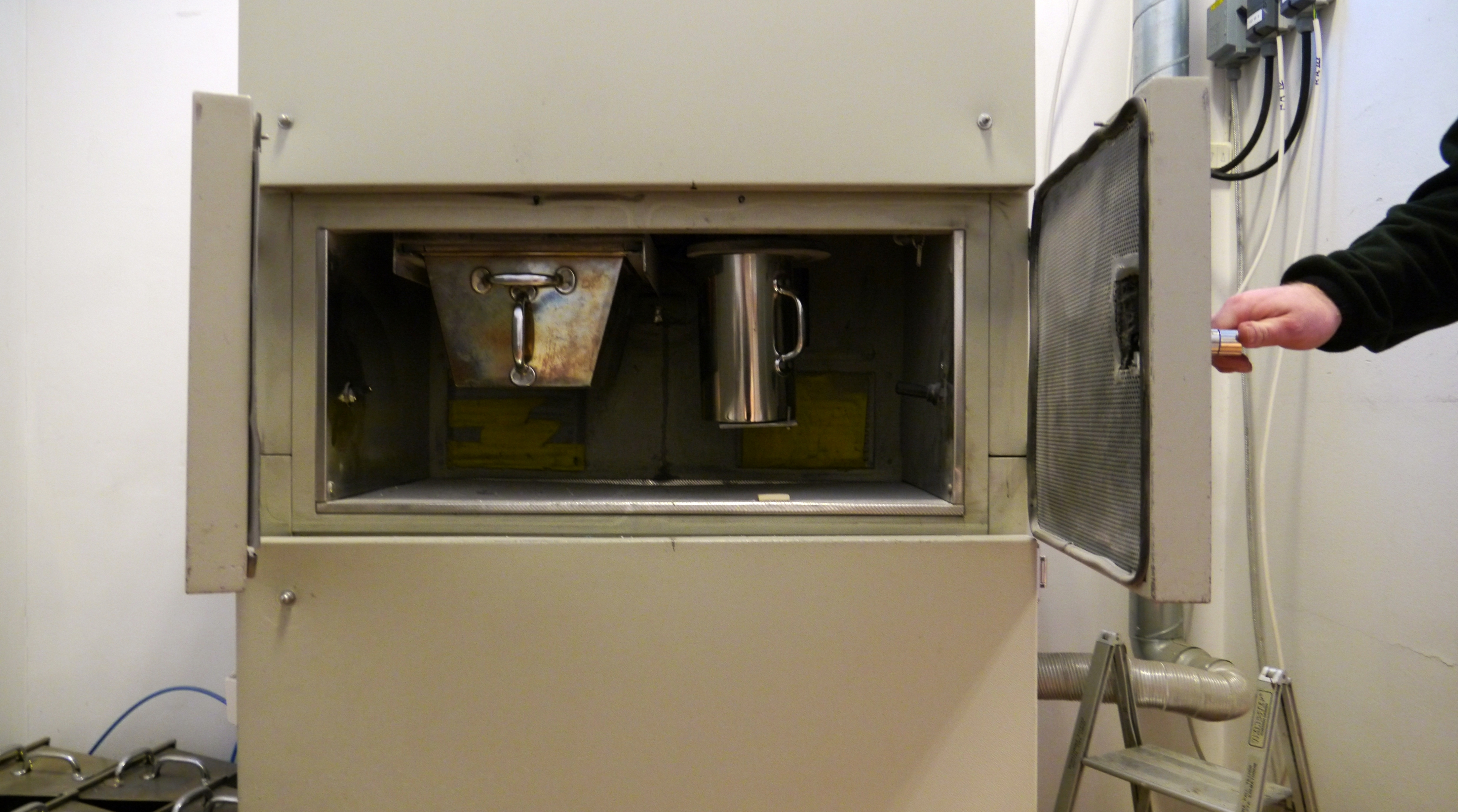 Grinding mill for crematory